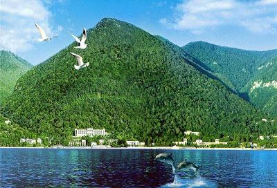 Gagra, View from the Black Sea